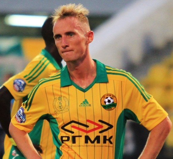 Vladislav Ignatyev 2014